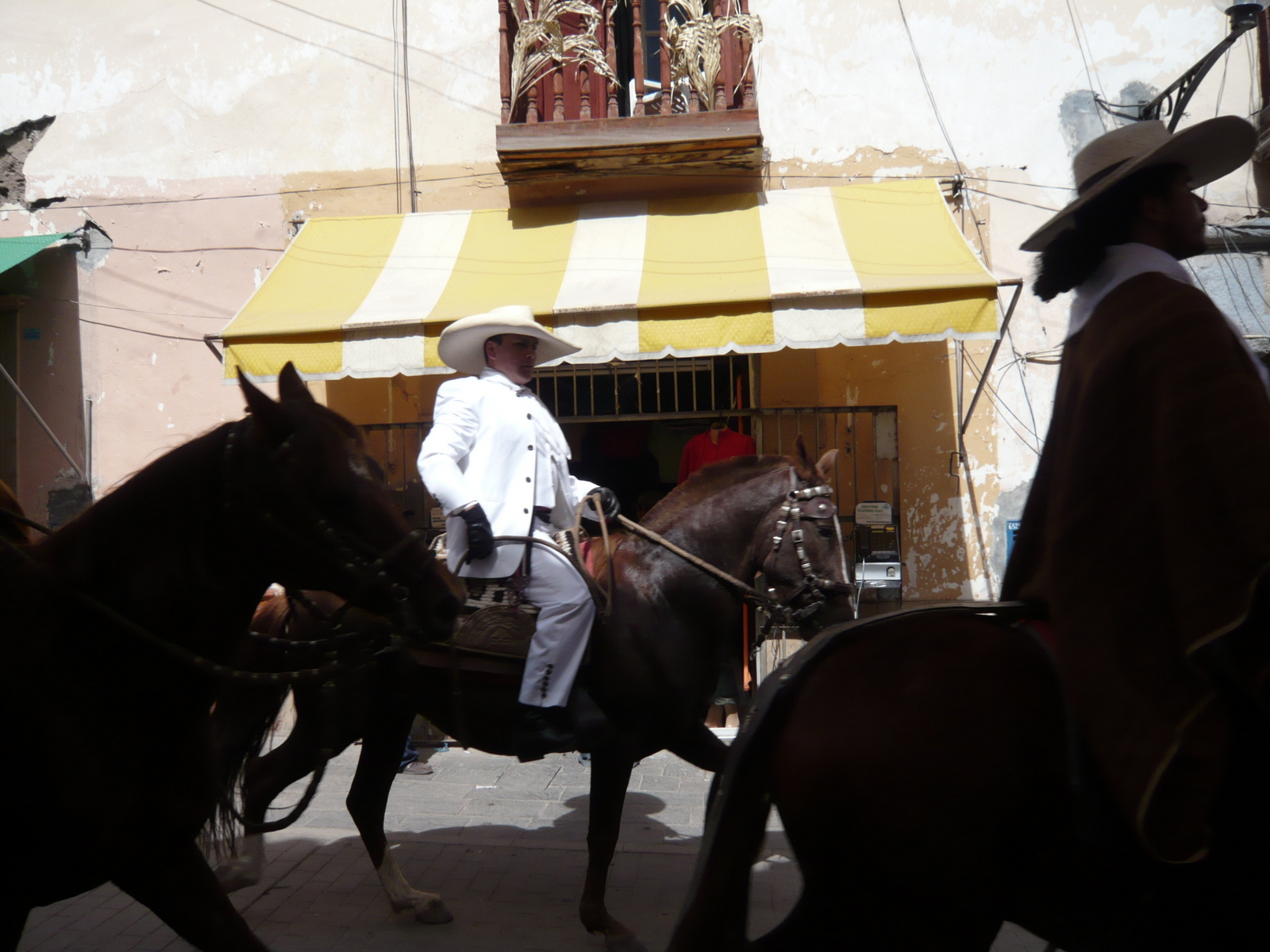 Photos of Ayacucho taken by E. Zambrano